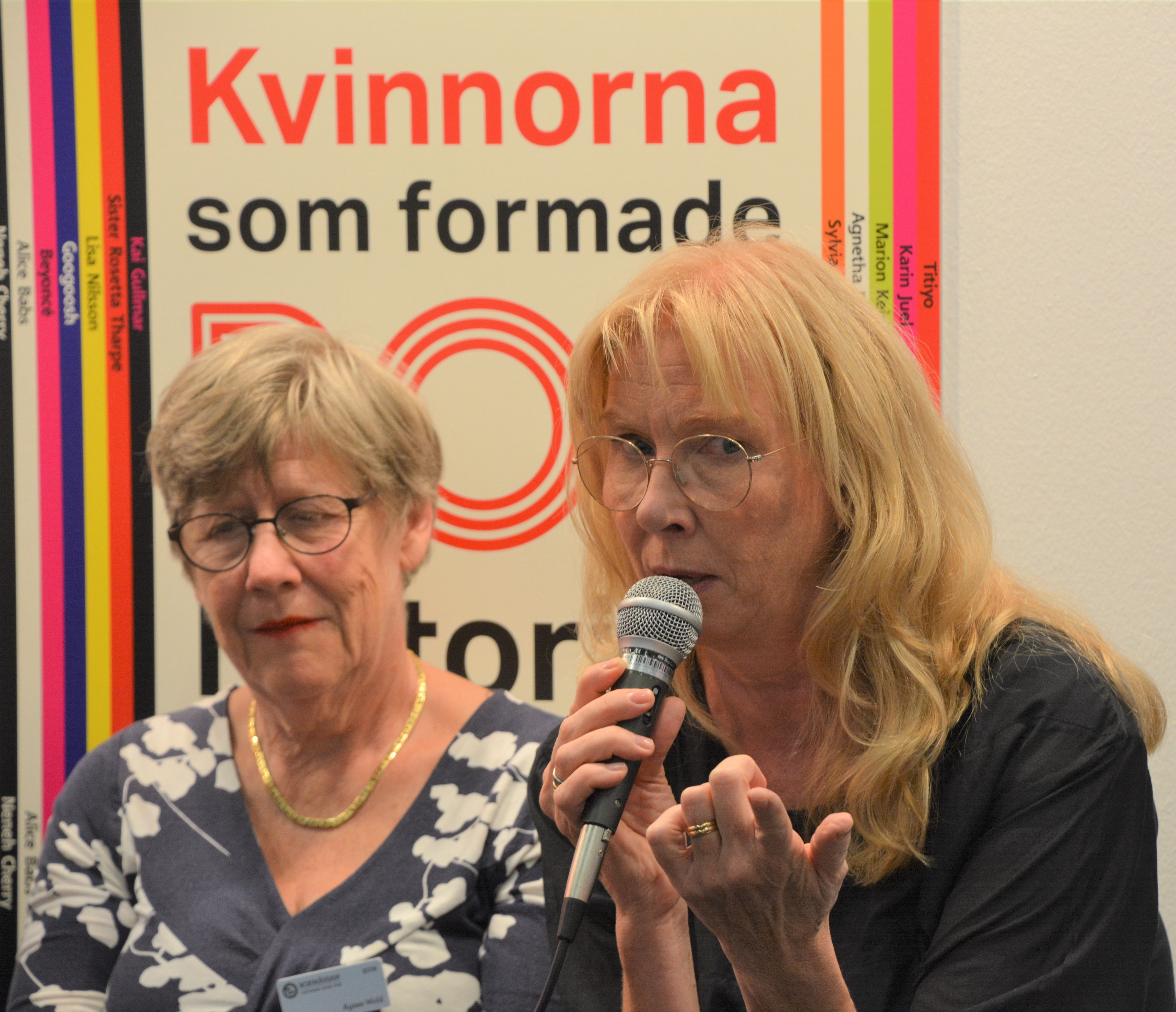 Agnes Wold och Åsa Beckman at Göteborg Book Fair 2019